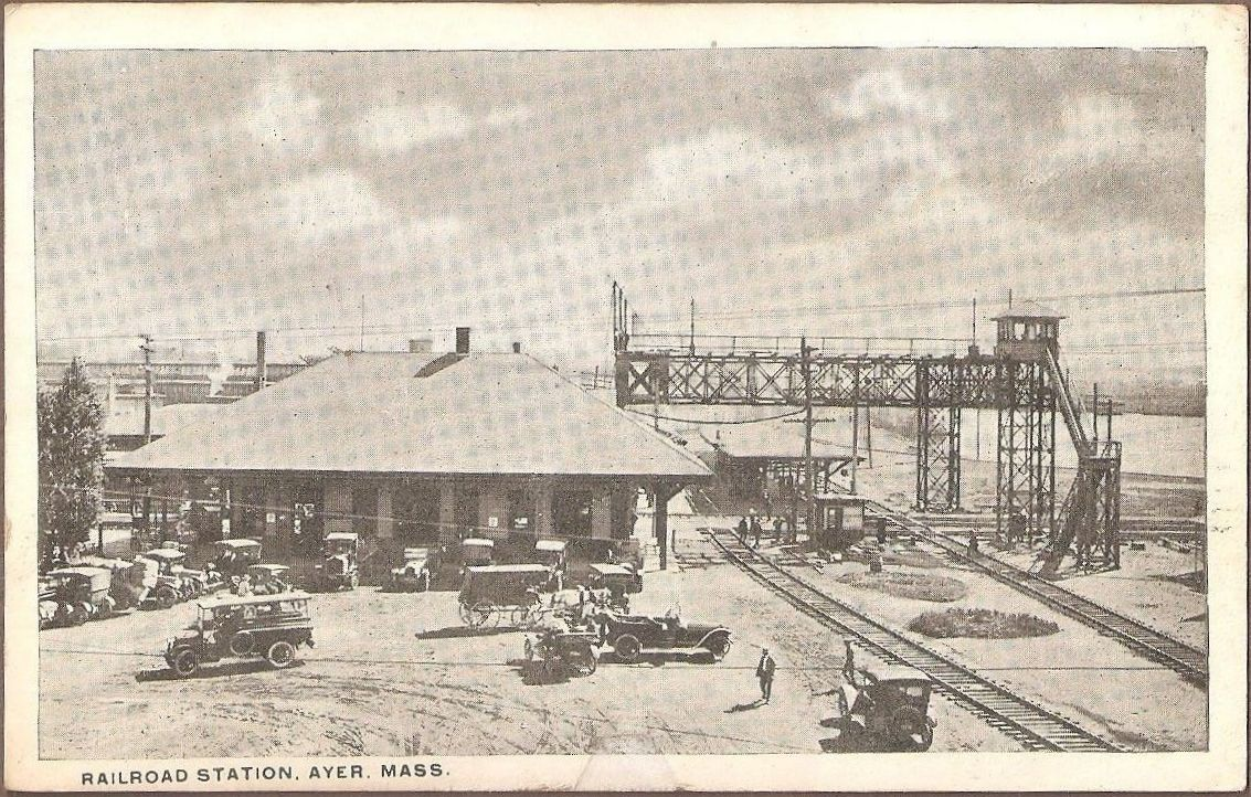 Postcard of Ayer station around 1919